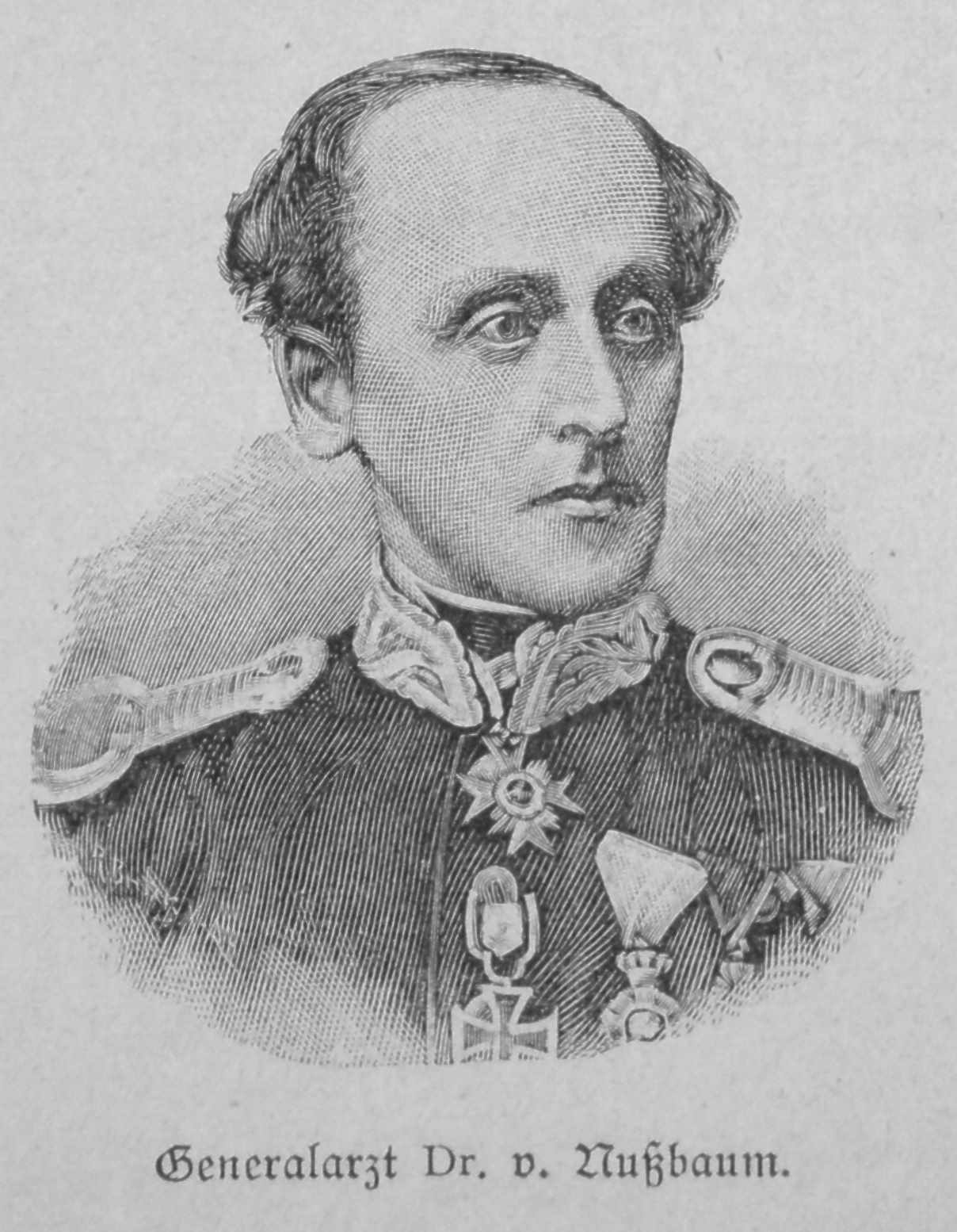 brigadier general of Medical Corps MD von Nußbaum